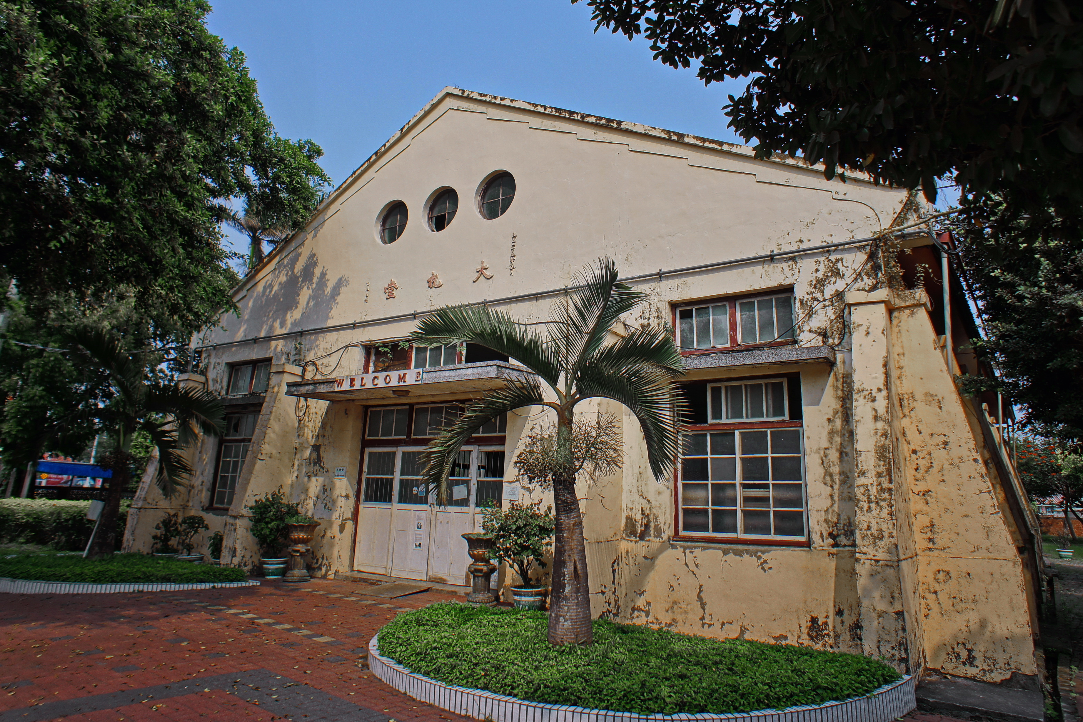 Former Assembly Hall of the Tainan City Huan-Ya Elementary School, Yanshui District, Tainan City, Taiwan.